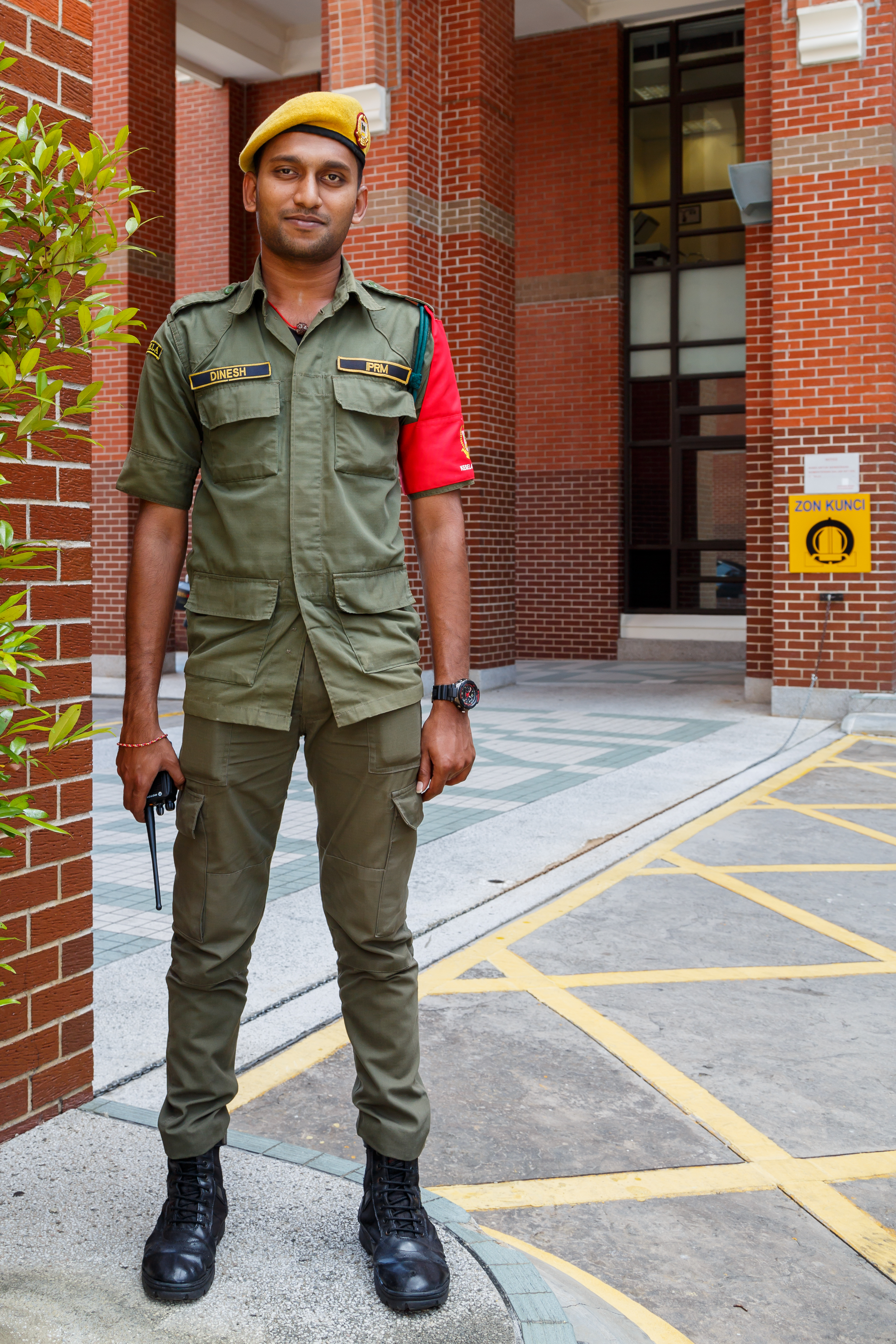 Putrajaya, Malaysia: Member of RELA Corps. Photo taken at Federal Government Administrative Centre, Block D9 Level 7,8,9 RELA Corps Headquarters